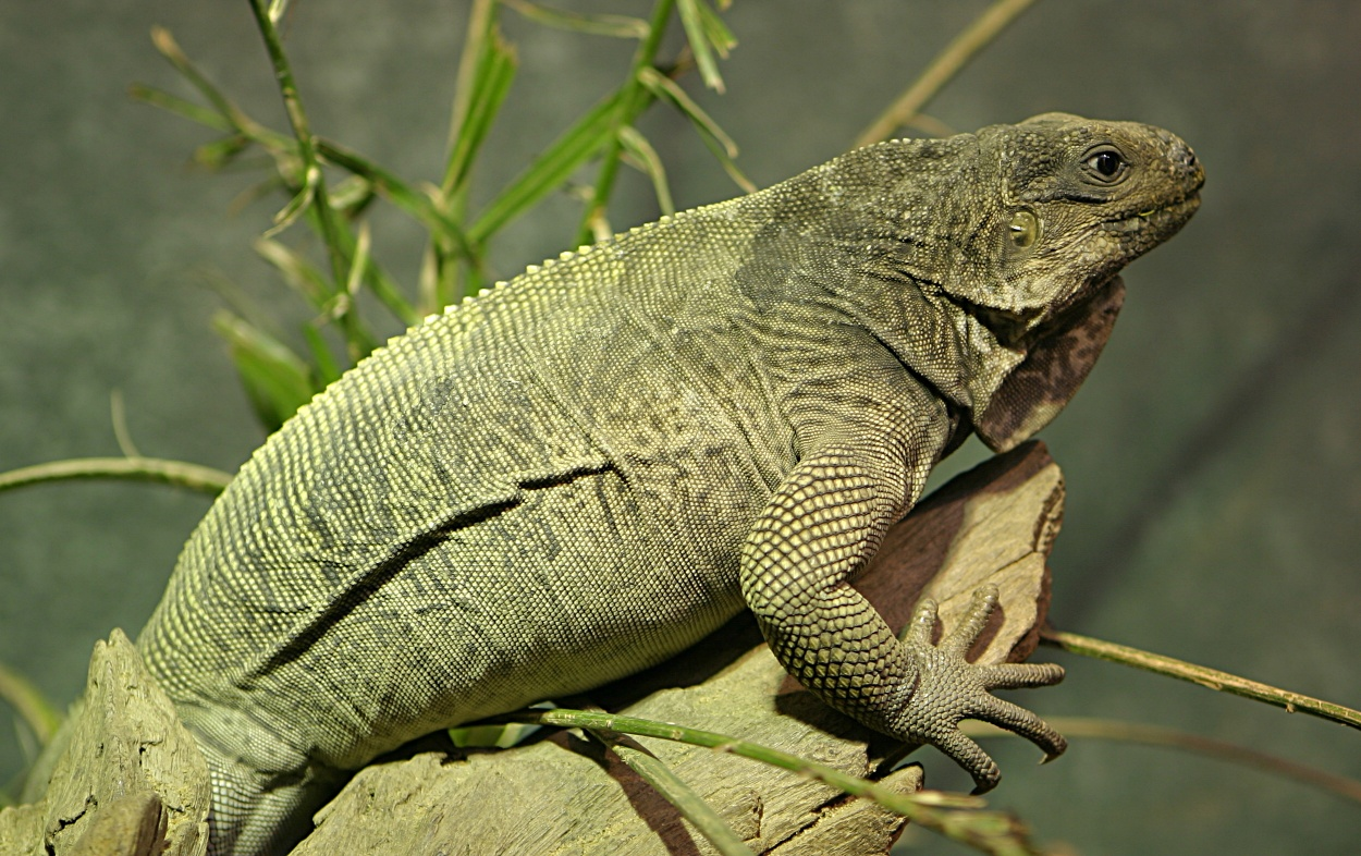 Cyclura pinguis Stout Iguana at the Houston Zoo